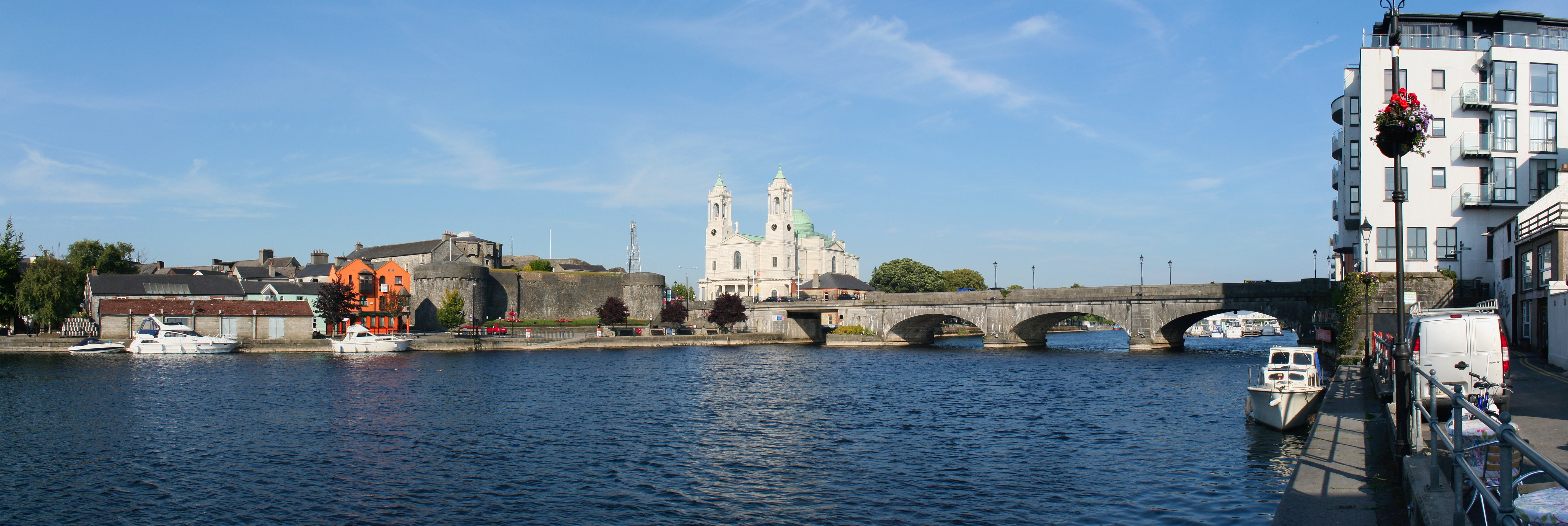 Athlone / Ireland - Castle, St Peter and Paul's Church, Bridge over the Shannon